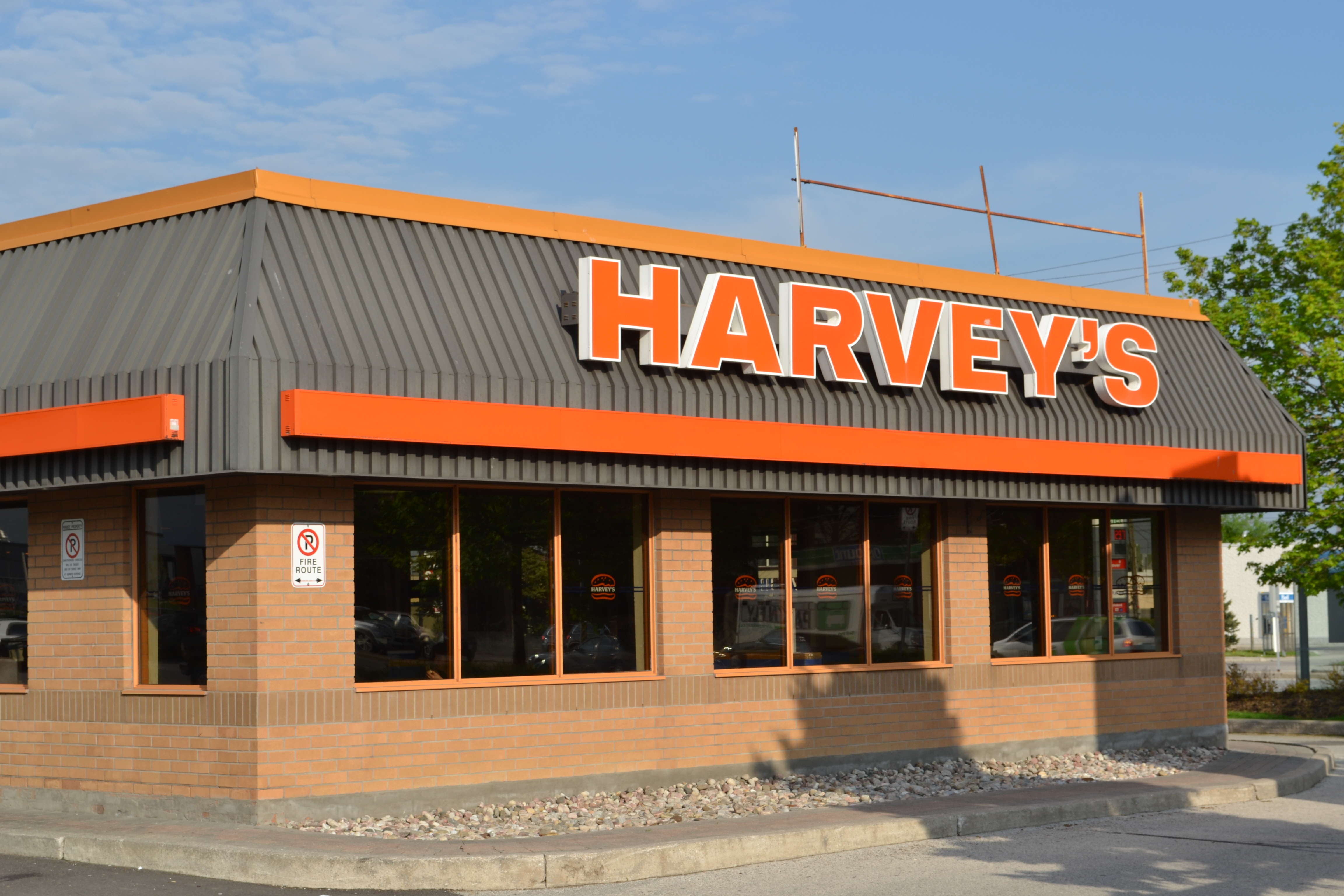 Harveys at 648 Dixon Road